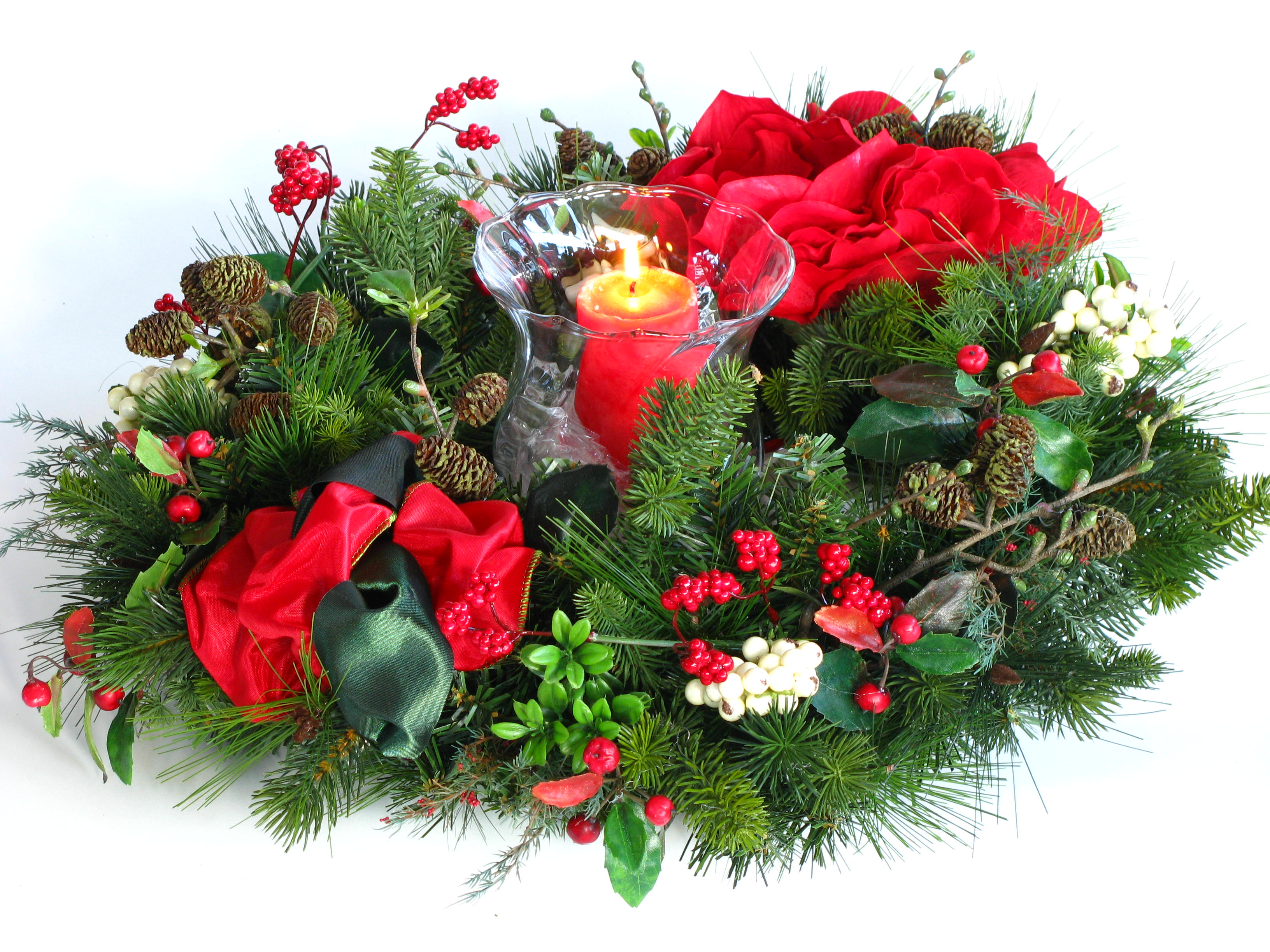 Christmas wrath with Amaryllis; silk flowers and artificial flowers